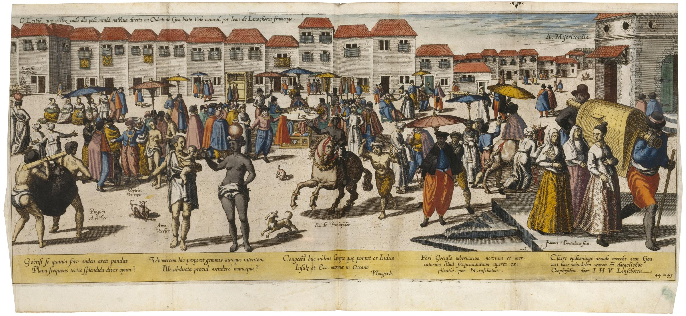 View of the market in Goa. O Leilão que se Faz cada dia pola menhã na Rua direita na Cidade de Goa Feito Polo natural por Ioan de Linschoten framengo.. Goënsi se quanta foro viden area pandat Plana frequens tectis splendida dives opum? Ut mercem hic properet gemmis auroque nitentem Ille abducta procul vendere mancipia? Congesta huc videas Ganges que portat et Indus Insule et Eoo Maximae in Oceano. P Hoogerb. [monogram] Fori Goensis tabernarum mercium et mercatorum illud frequentatnium aperta explicatio per J H V Linschoten [monogram] Claere opdoeninge vande merckt van Goa met haer winckelen waren en daegelickse Coopluyden door I.H.V. Linschoten. 44 en 45. Pictured extreme right is a covered sedan chair.